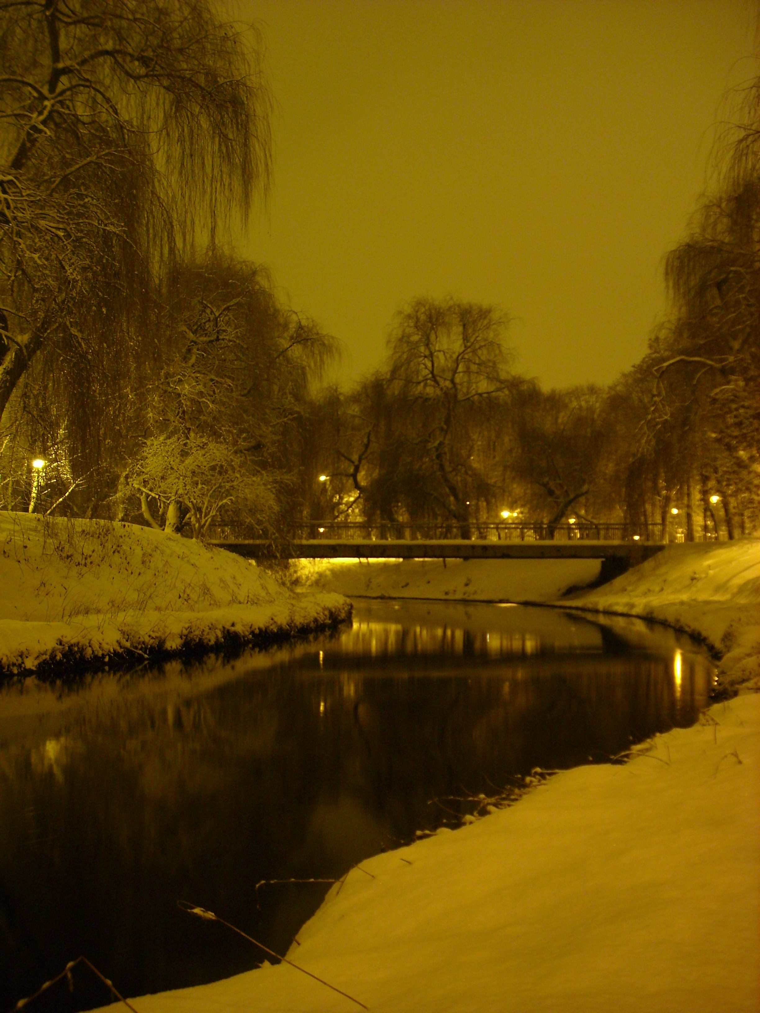 Czarna Przemsza in winter scenery